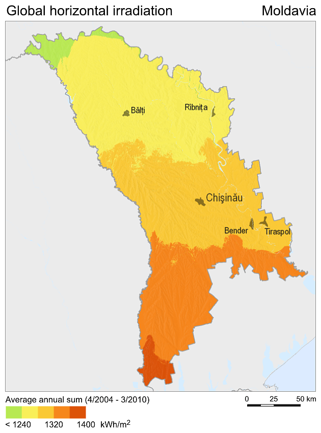 Solar Radiation Map: Global Horizontal Irradiation map of Moldavia, SolarGIS 2011